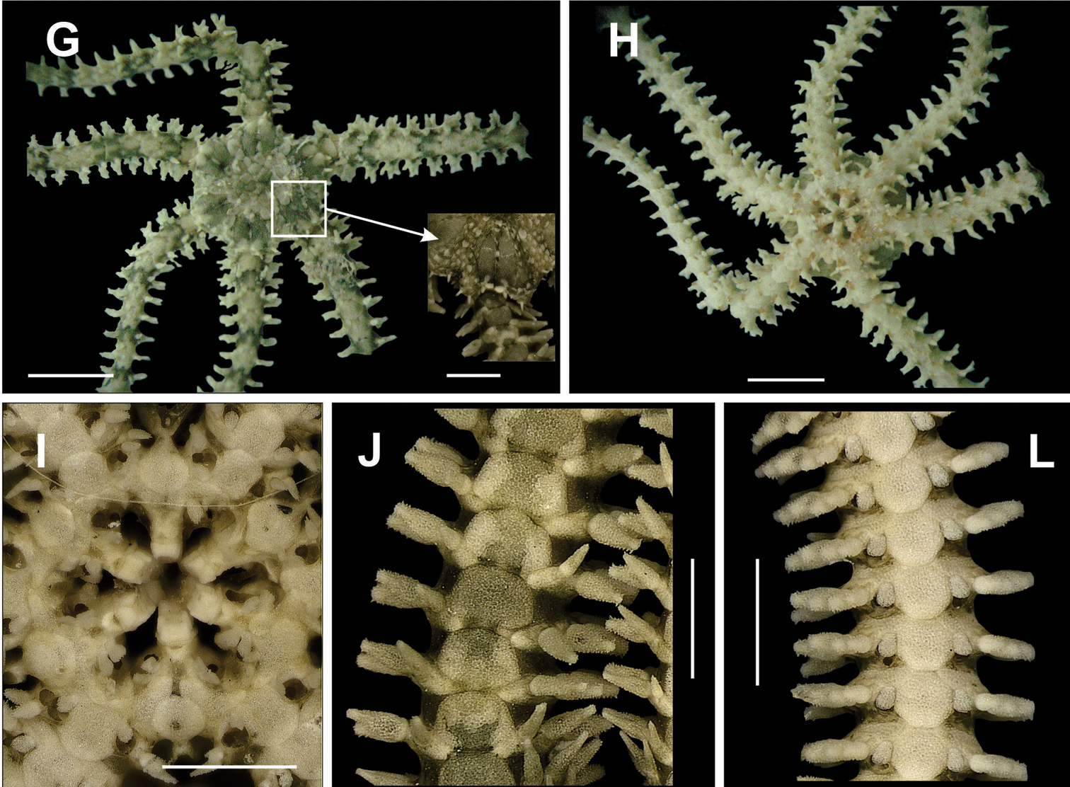 Ophiactis savignyi G dorsal view, detail of the radial shields H ventral view I jaw J dorsal view of the arms L ventral view of the arms. Scale bar = 1 mm.